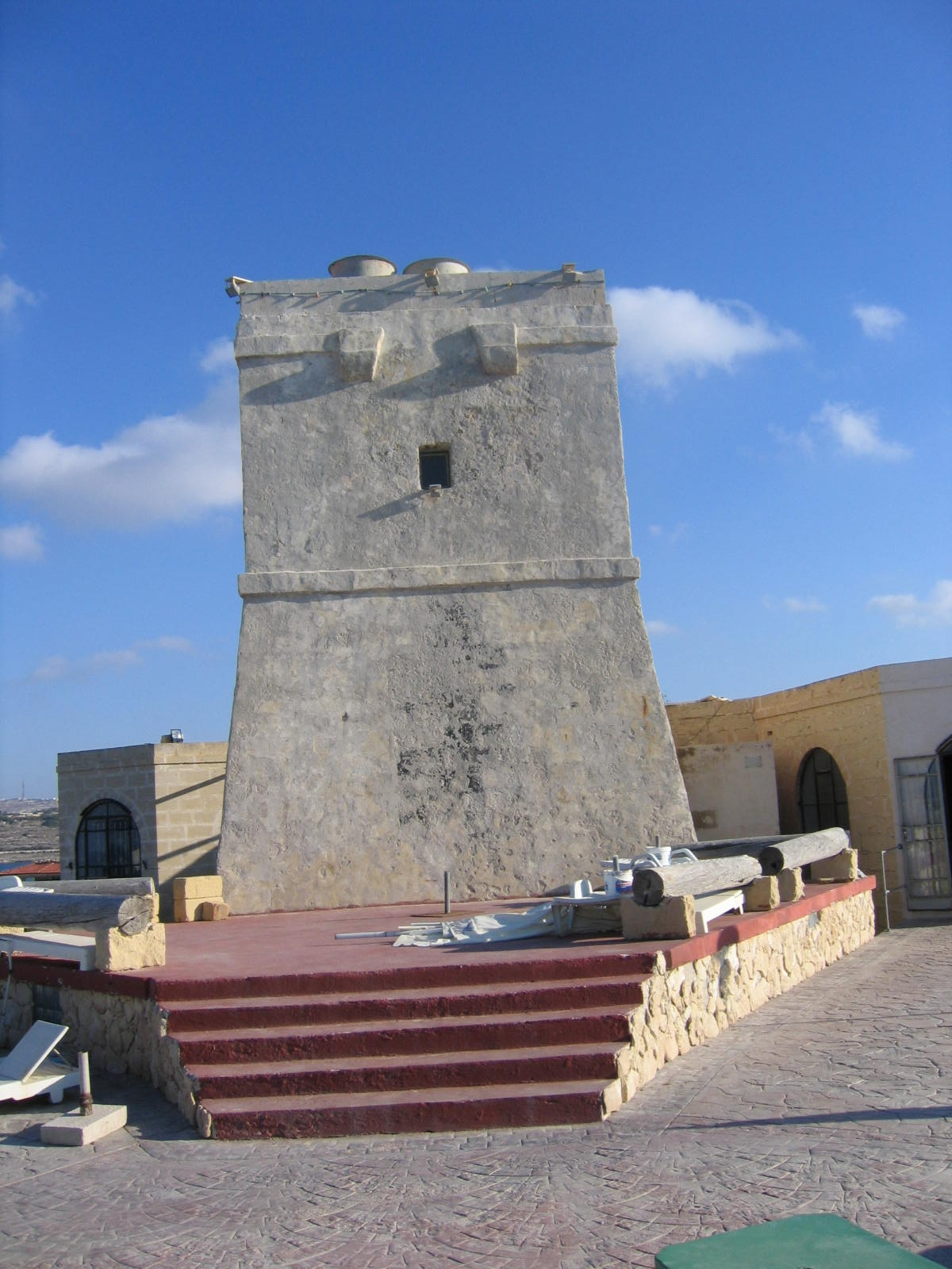 View along the cost from Qawra Tower, to Ghallis tower, with St Mark's tower in the distance, and Madleena tower in the far distance. Near Bugibba, Malta Copyright H.J.Moyes Sept 2005. All rights reserved